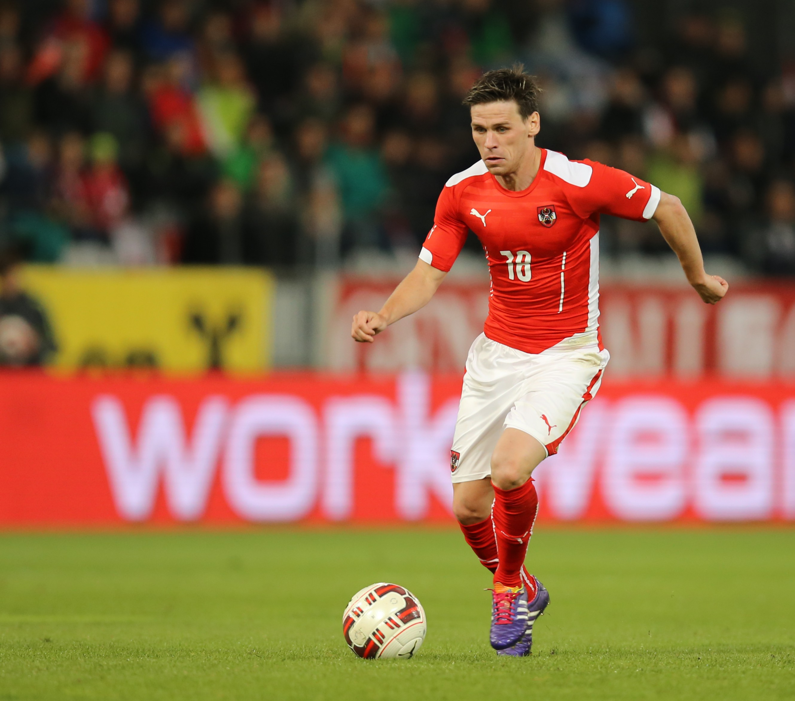 Austria - Iceland football match in Innsbruck, Austria on 2014-05-30. Austria in red, Iceland in blue.